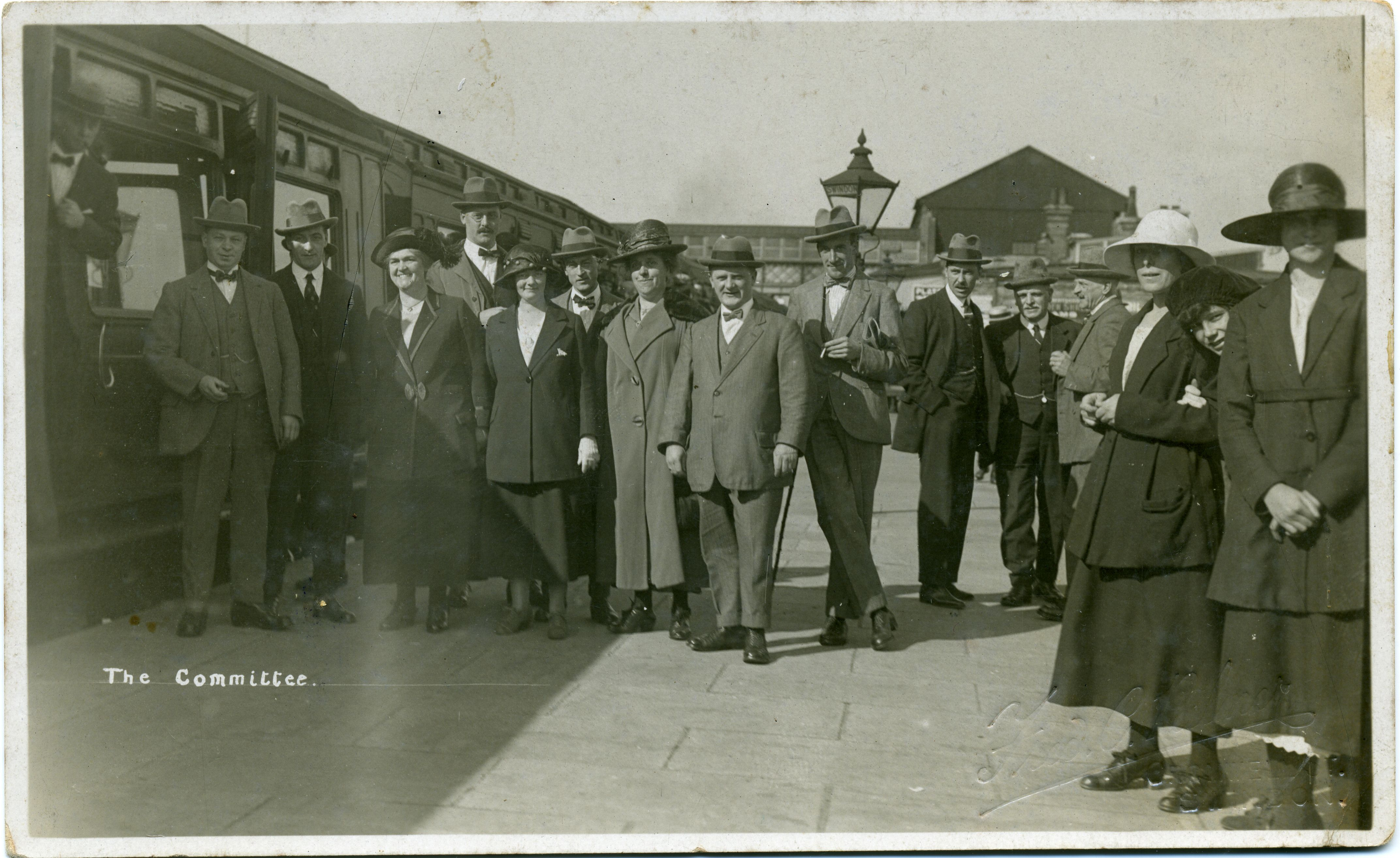 1920s or 1930s portrait photo of "The Committee" at Swindon Railway Station, Wiltshire, England. The Committee's function is unknown. The card is unused and unpostmarked. The photographer was Fred C. Palmer of Tower Studio, Herne Bay, Kent ca.1905-1920, and of 6 Cromwell Street, Swindon ca.1920-1936. He died in 1941. Points of interest Note the spiv in the centre. Note the fedoras and bow ties. Palmer appears to have used a cracked plate for this photo Editing This is an unedited scan of an historical print. Please consider uploading edits of this image as separate files. Border The remaining border of this image is important for researchers of this photographer. Some photographers trimmed their images more than others, and Palmer has a reputation for producing smaller postcards than other early 20th century UK photographers. He took his own photos, developed them in-house onto postcard-backed photographic paper and trimmed them himself. It is worth adding that during hand-developing the border is actively masked with equipment which both crops the picture and causes the white frame or border to appear on the paper. This frame is part of the design and is one of the reasons why the quality of Palmer's work is so interesting, and why there is an article and category for him on English Wiki. Researchers need to see exactly where the edge of the postcard is. Thank you for taking the time to read this.